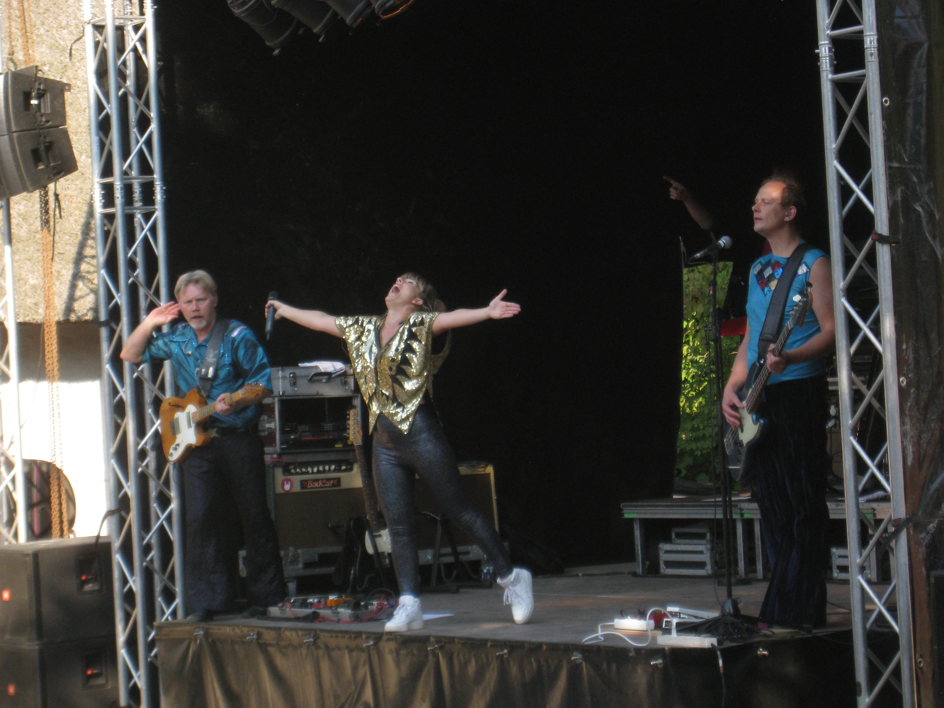 Le Freak during a concert in Den Gamle By, 2016